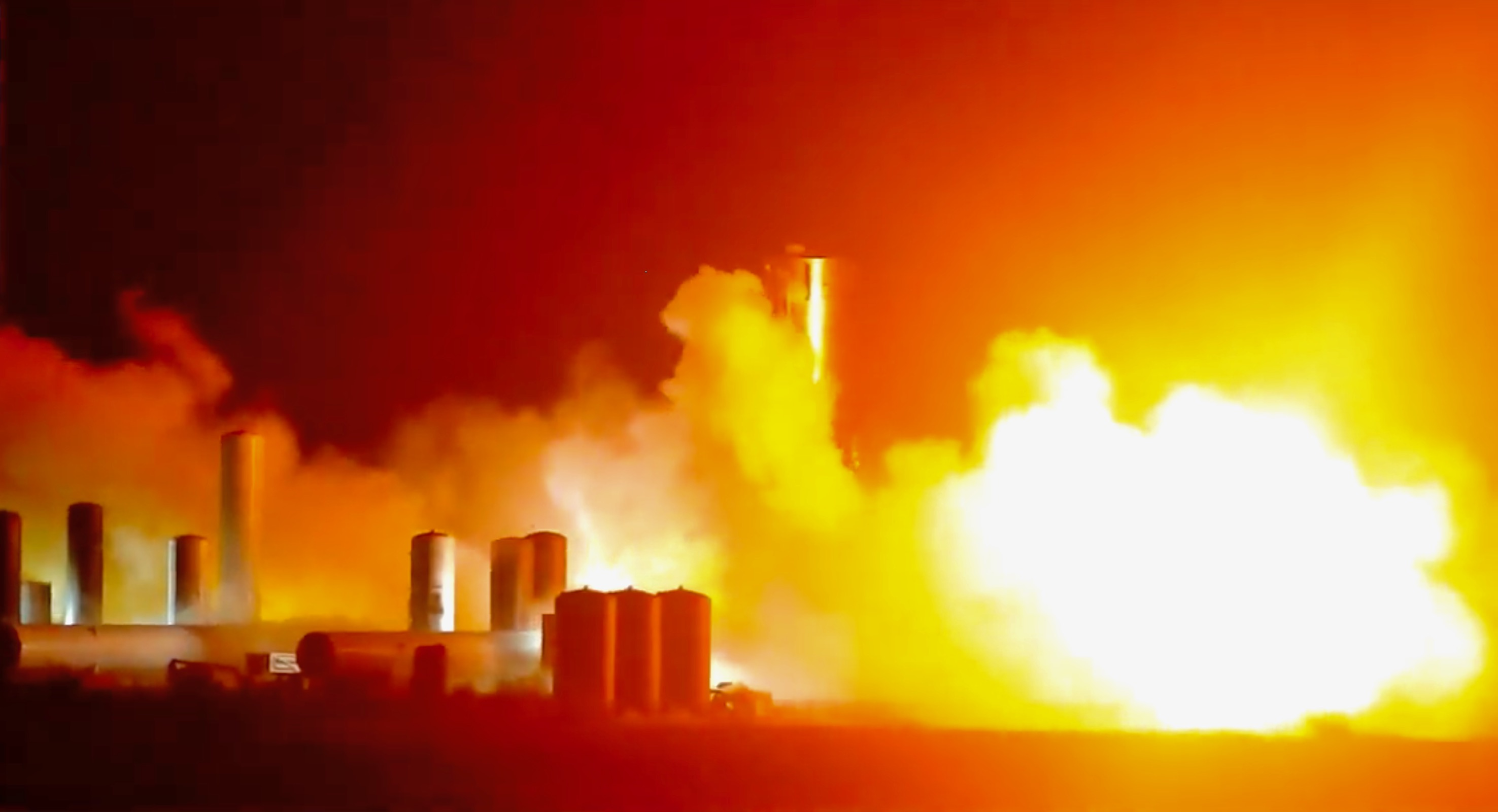 At Boca Chica tonight. All systems nominal.